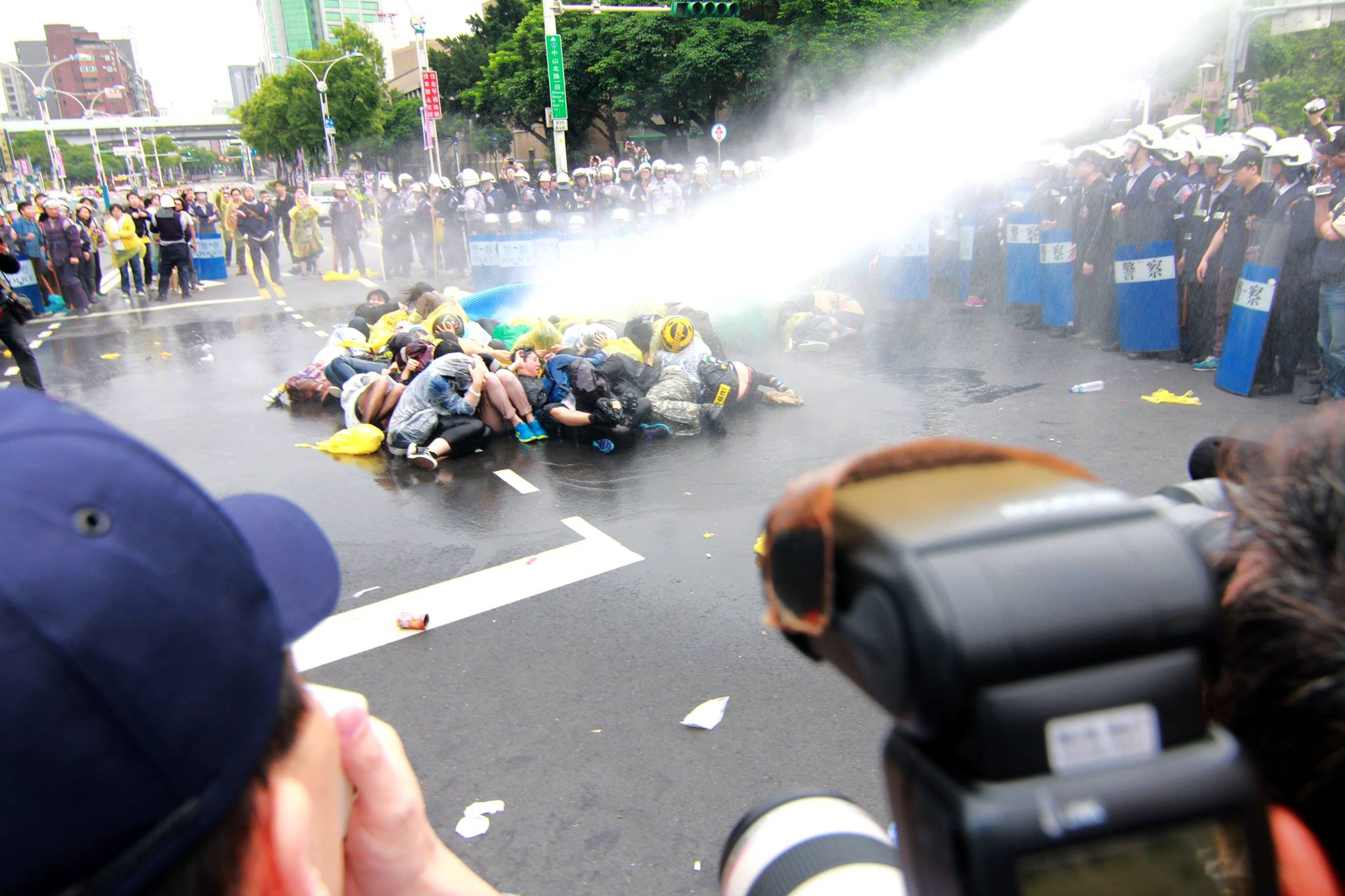 Group of protesters sprayed by water cannons in Taipei, Taiwan on April 28, 2014